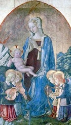 Benedetto Bonfigli, Panel, ca. 1450